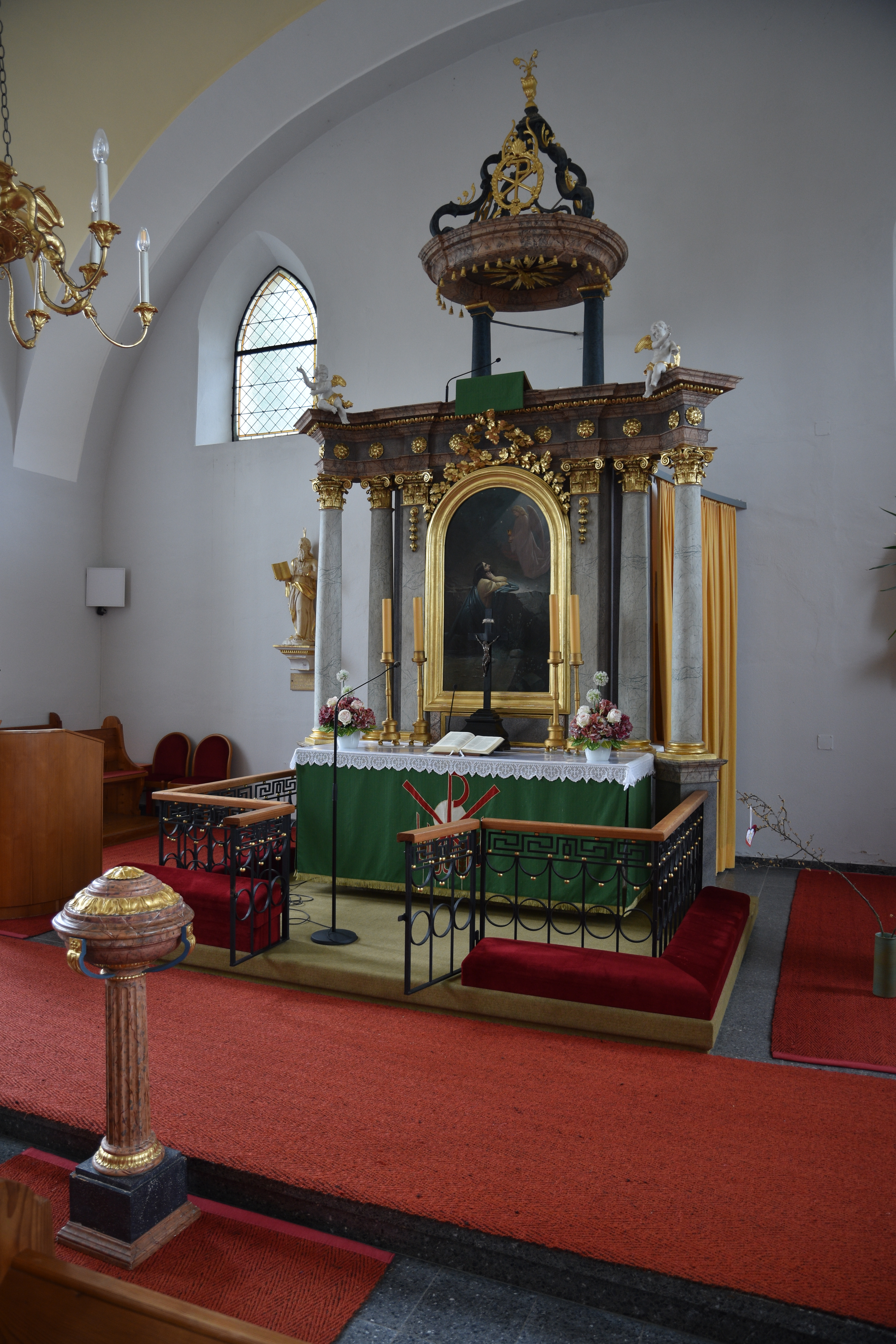 Church Evangelische Pfarrkirche Rechnitz Interior